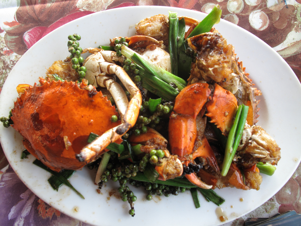 Chhar kdam merec, known in English simply as Kampot pepper crab featuring green Kampot peppercorns, garlic and spring onion.